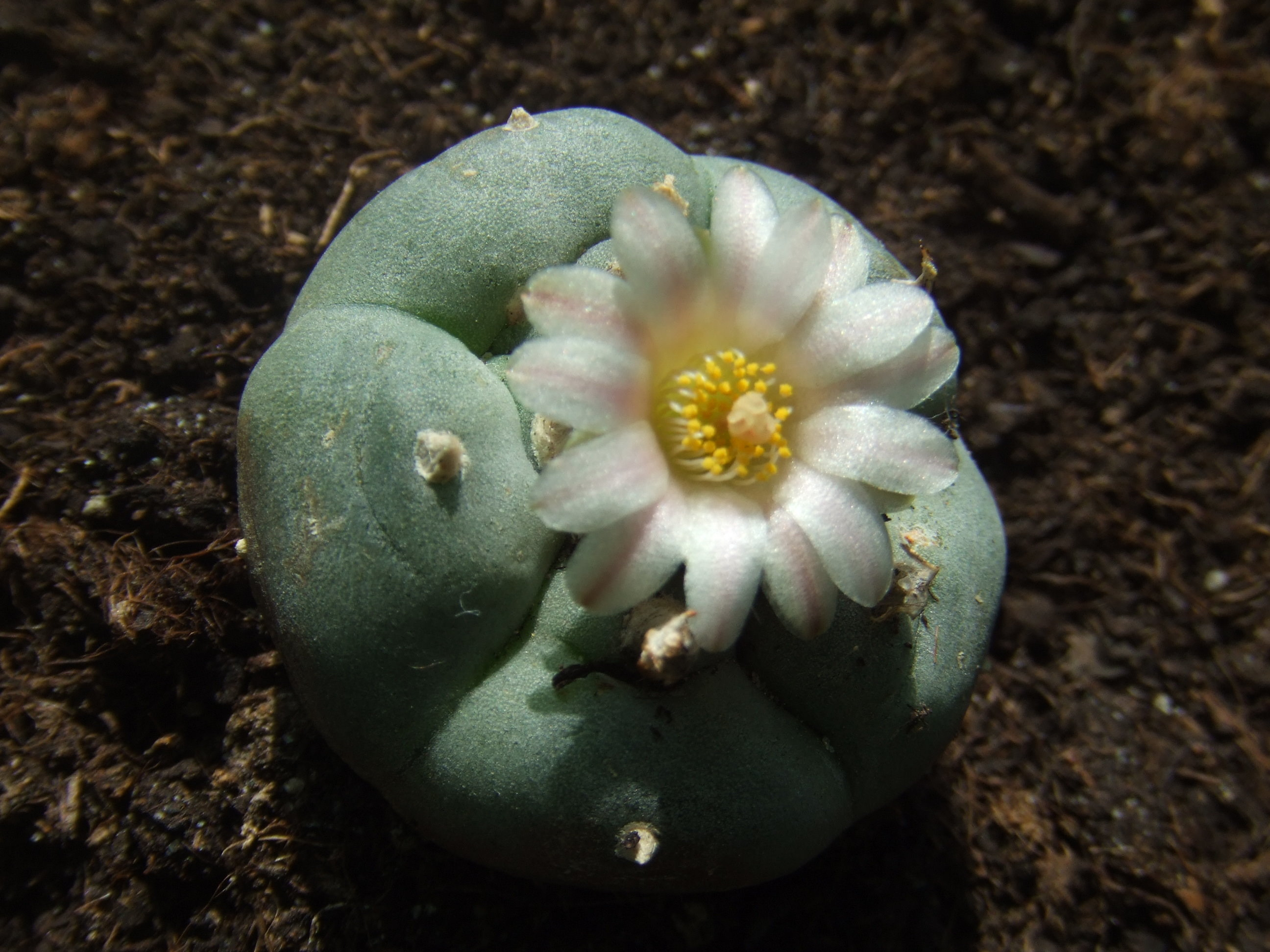 Lophophora williamsii, own collection